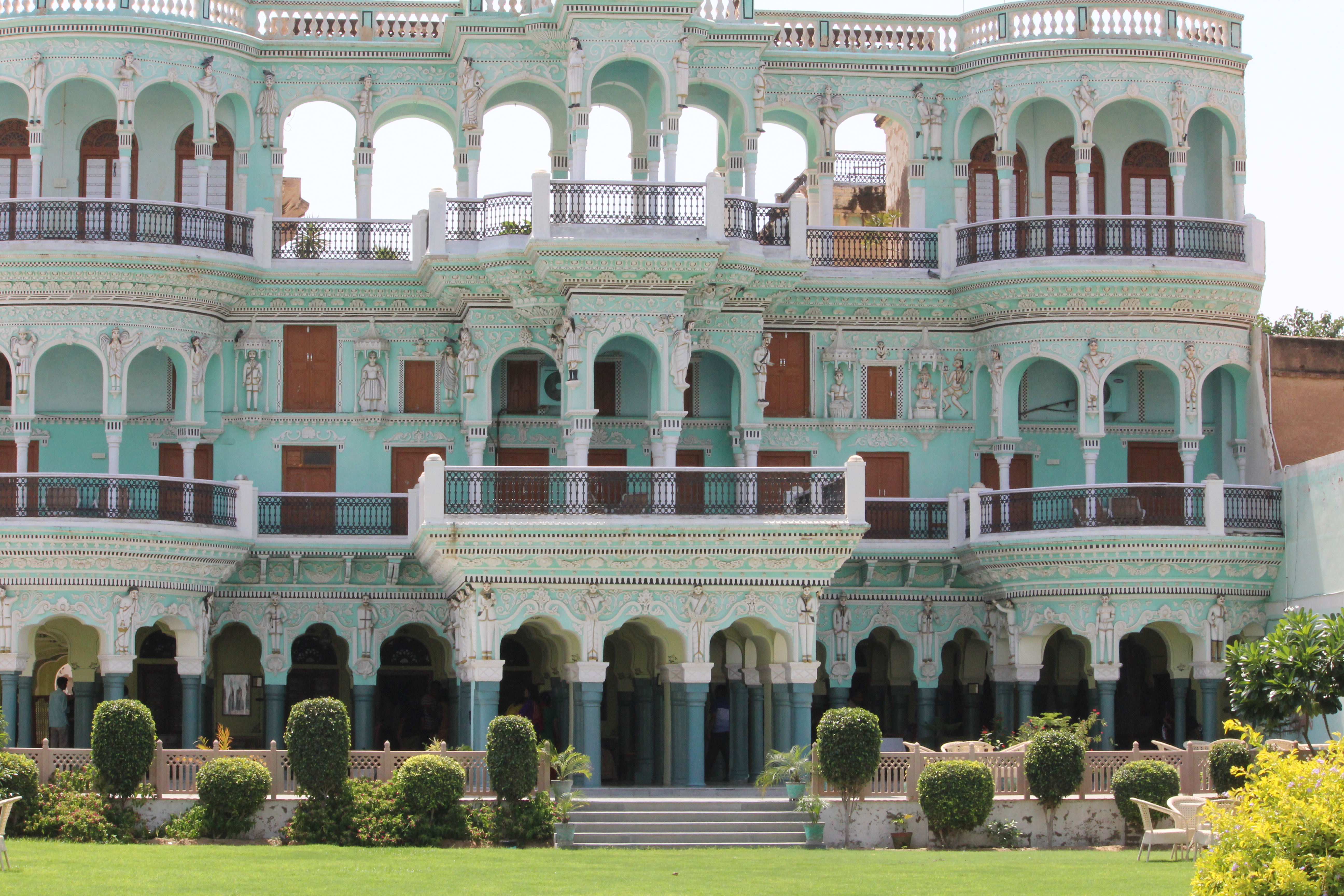 place in churu